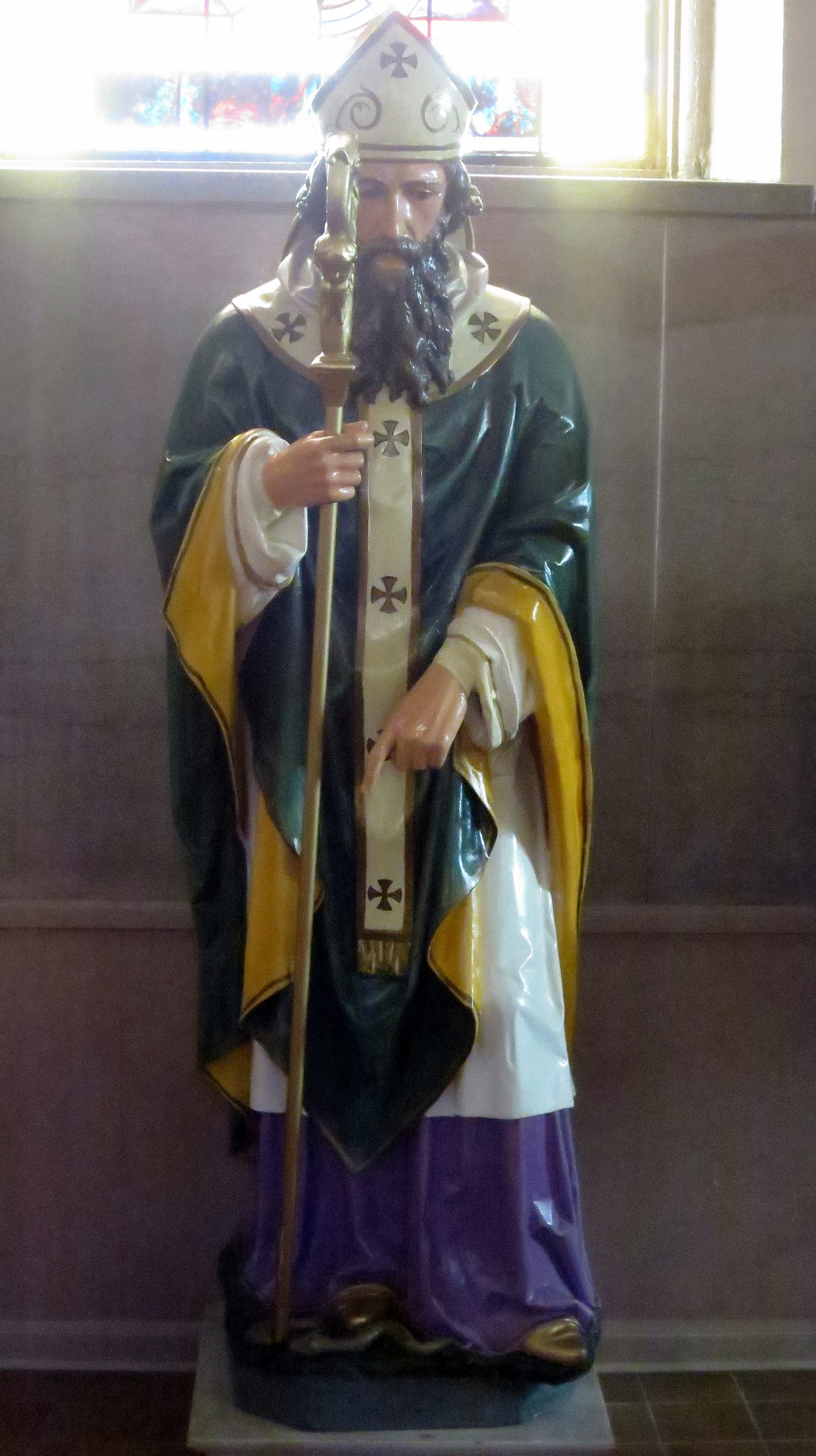 Holy Cross-Immaculata Church (Cincinnati, Ohio) - statue of St. Patrick